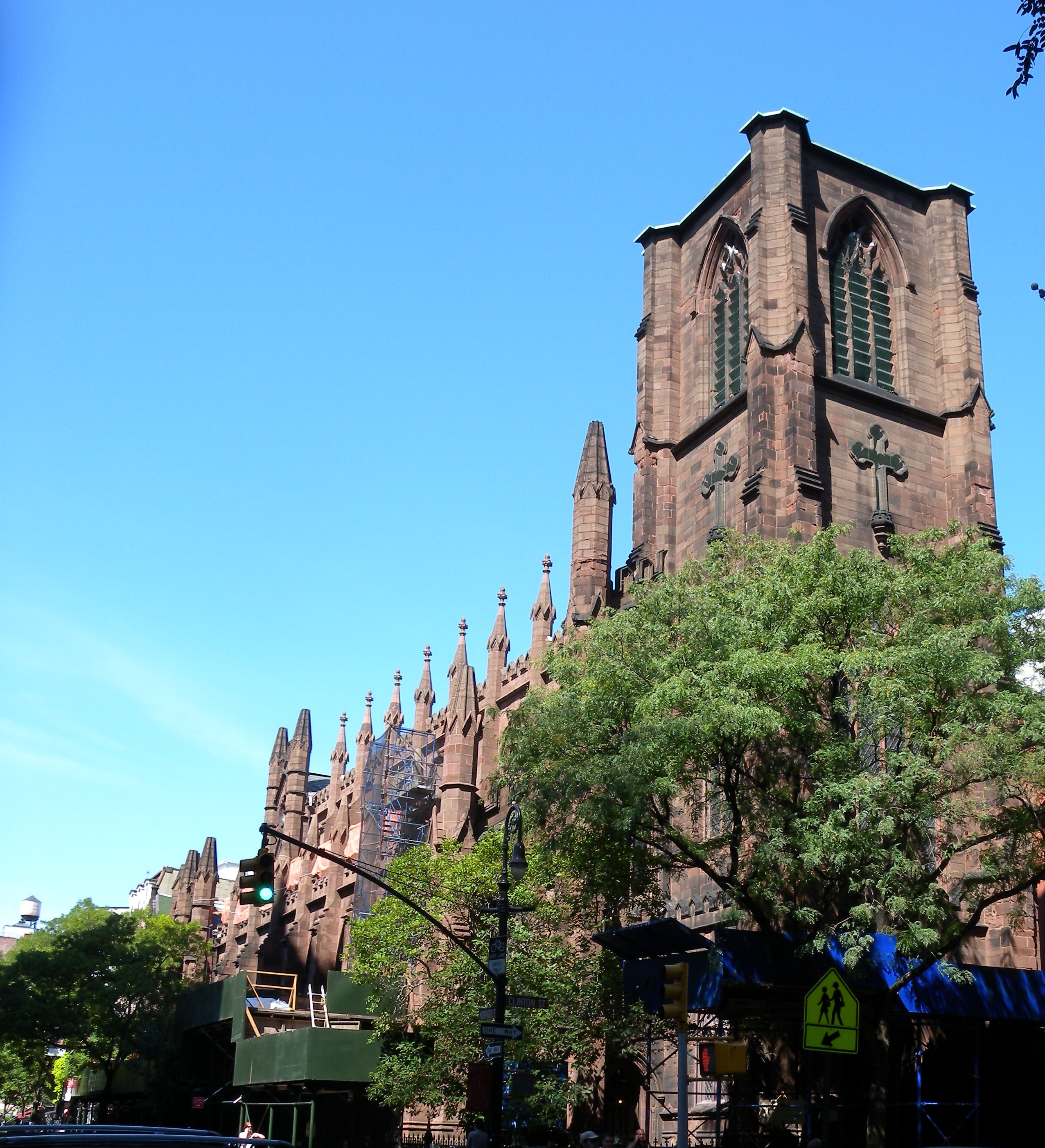 Looking northwest across Montague and Clinton Streets at St Ann's & Holy Trinity on a sunny late morning.